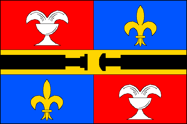 Municipal flag of Studénka town, Nový Jičín District, Czech Republic.